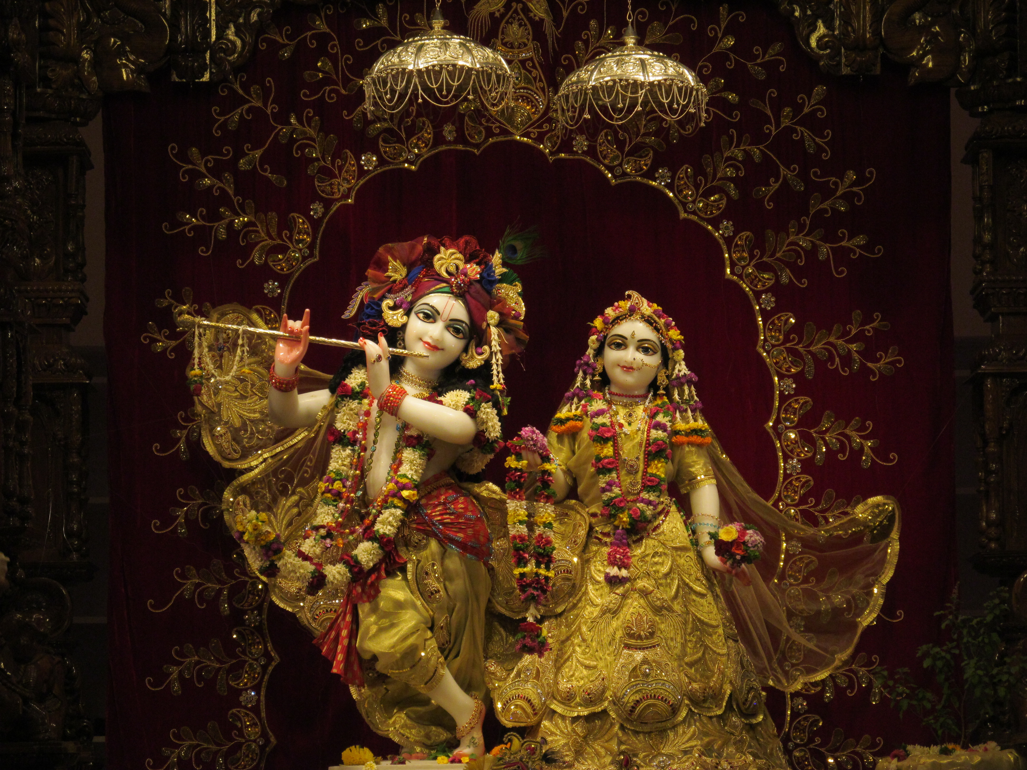 ISKON NVCC